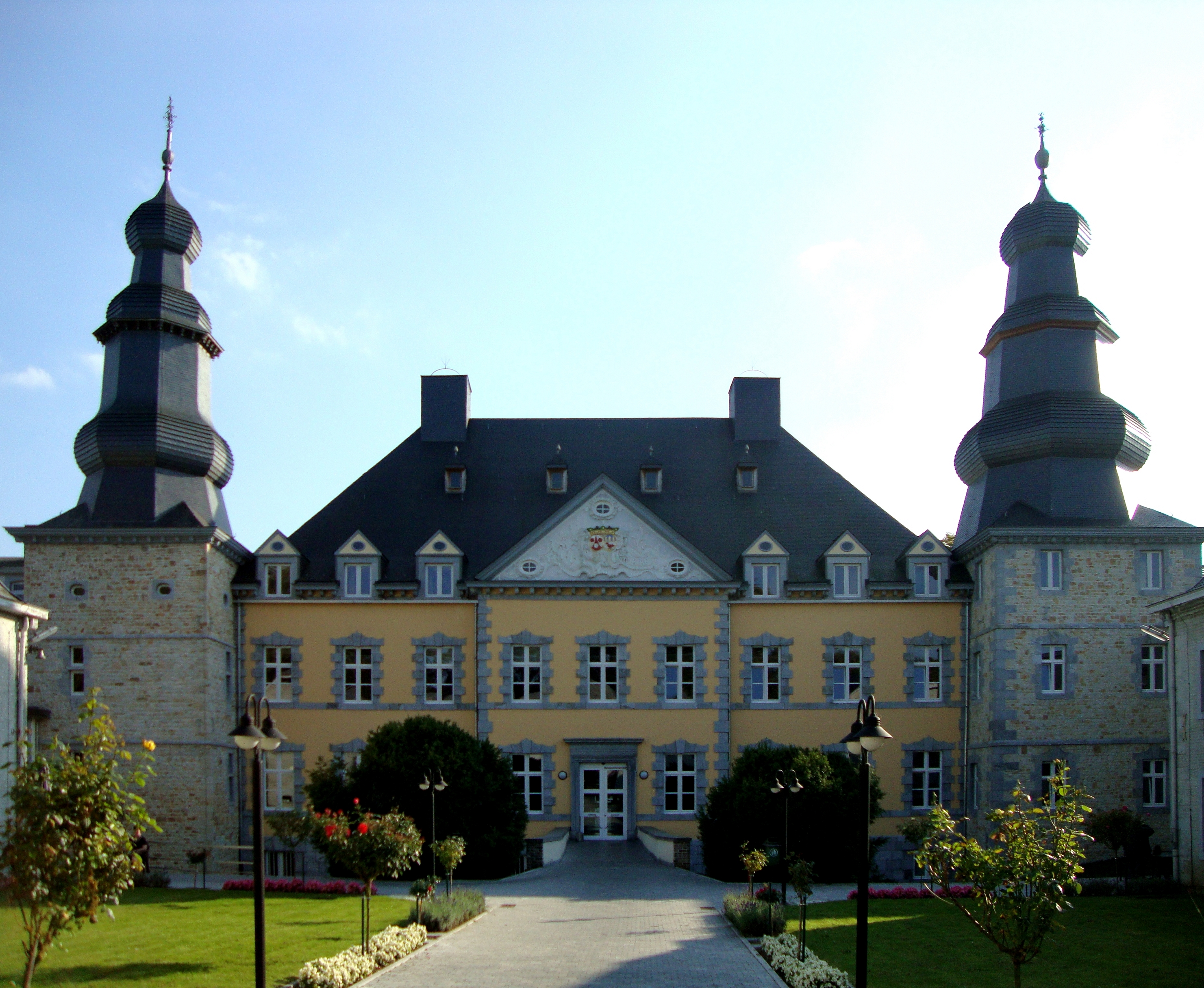 Baelen The castle was built in Louis XIII style. Hendrik-Kapelle (Welkenraedt)